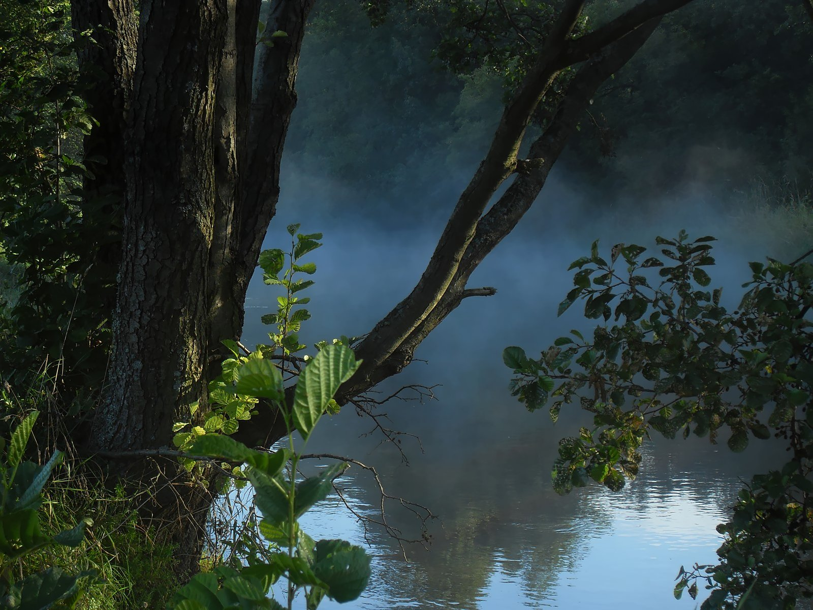 Wda channel in the fog